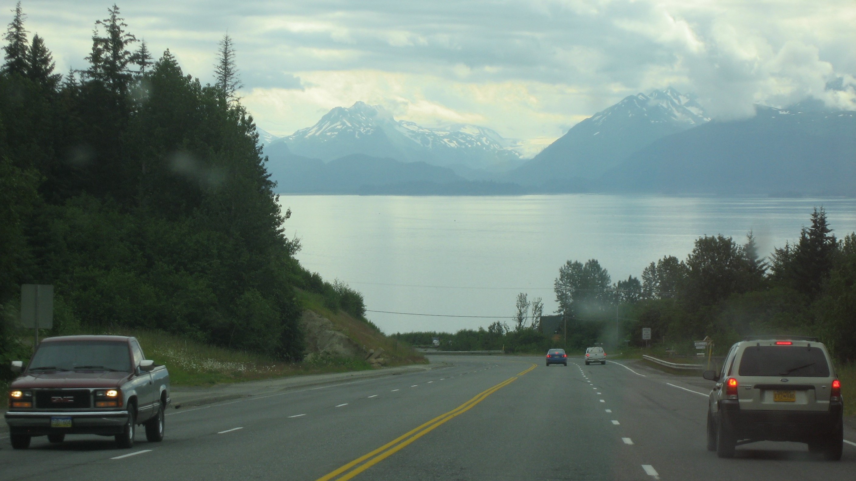 Cars on a highway, on a slope above a bay, Alaska in the summer of 2008